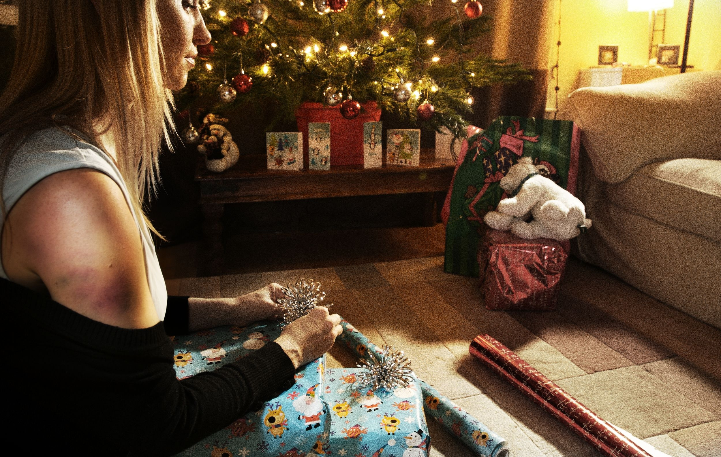 Each year, West Midlands Police runs a seasonal domestic abuse campaign that urges victims not to suffer in silence over Christmas - helping to spread the word through a mass ticketing drive on the region's buses and trams, in addition to supporting posters and flyers distributed to local pubs, hospitals and community centres. The ticketing campaign - which runs from this week (17 December) until the New Year - also features a strong warning to offenders that they run the risk of spending Christmas behind bars. Reports of domestic abuse to the force over the festive season (Dec 1 to Jan 4) have fallen in recent years to 2,694 last year from 4,382 in 2009-10. However, Public Protection officers fear the actual numbers could be higher as some victims feel pressure to put on a brave face over Christmas and New Year. Click the link below for useful advice and, if you can't talk to police, contact information for national support agencies and local organisations who can help.